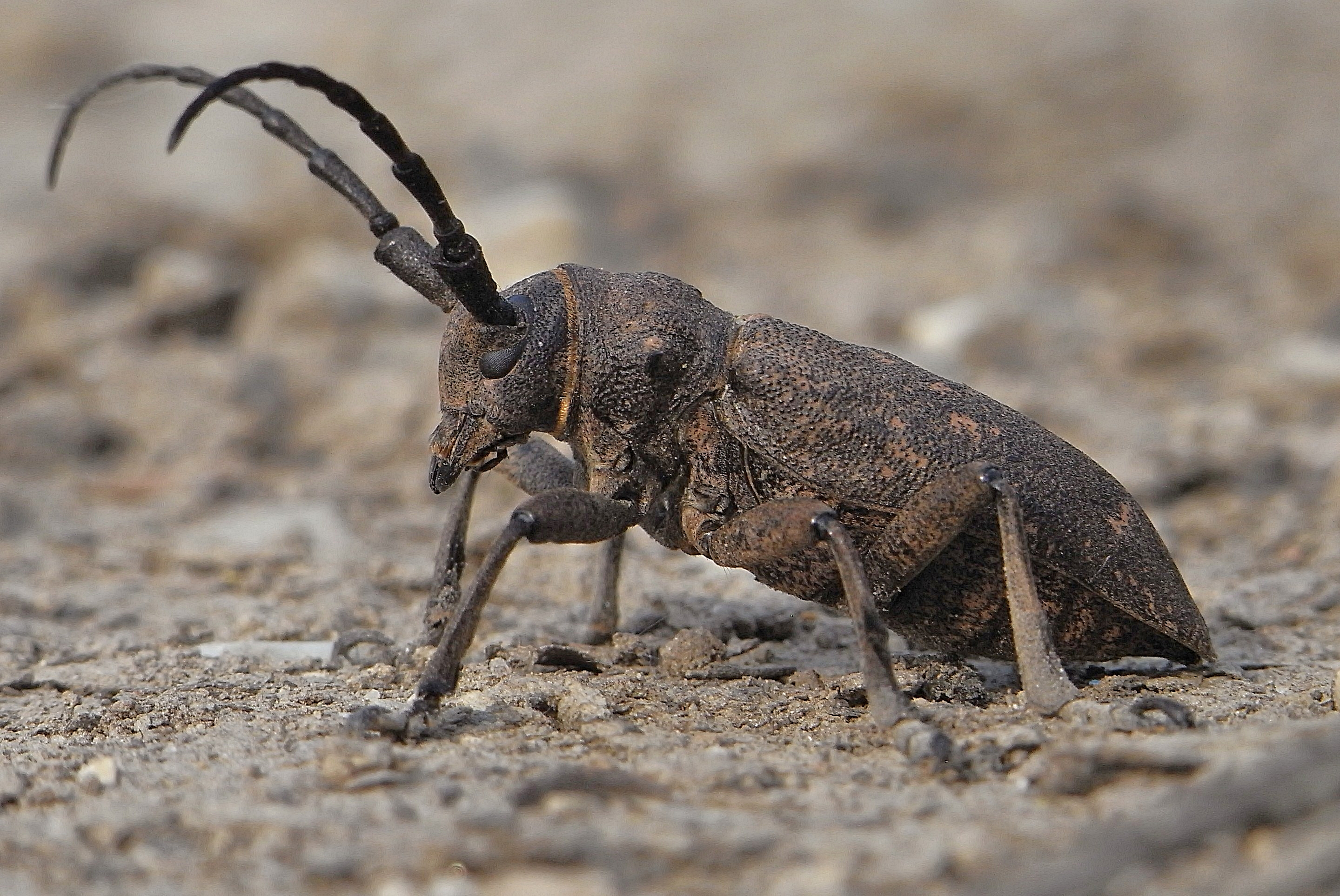 Lamia textor from Hungary at 2010-04-20 south of Lenti Ricoh R8